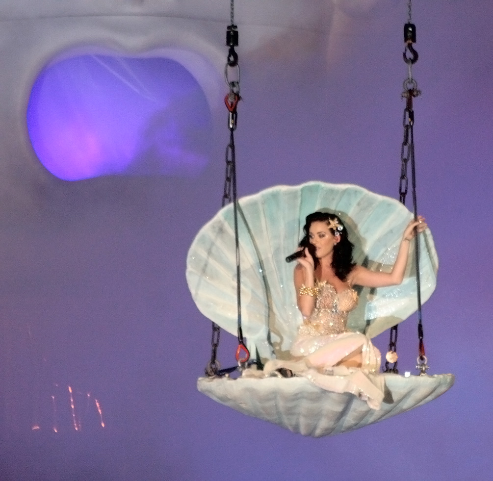 Katy Perry at the Life Ball 2009, Rathaus, Vienna.